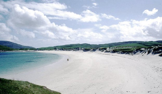 White sands of Vatersay Bay, Vatersay.